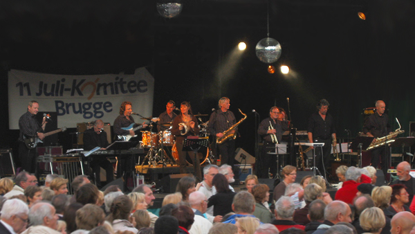 Bobby Setter Band @ Burg, Bruges; Jul 12, 2008